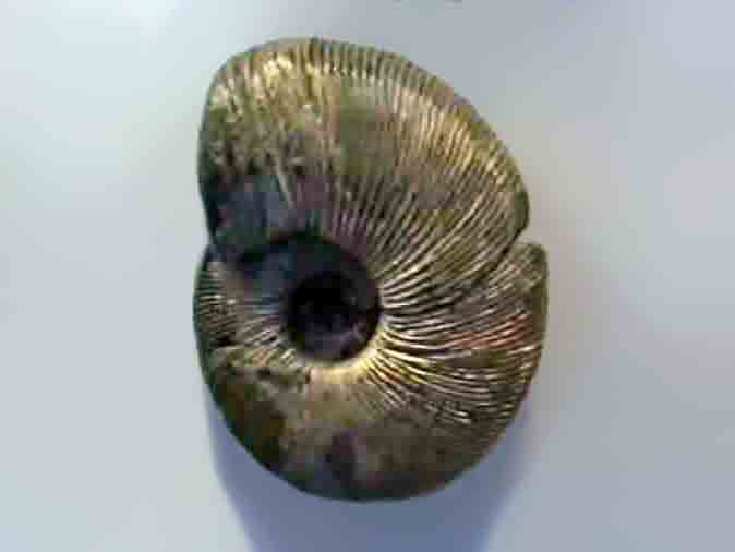 Pectinatites pectinatus from Kimmeridge Clay Formation, Swindon, Wiltshire, England at the Natural History Museum